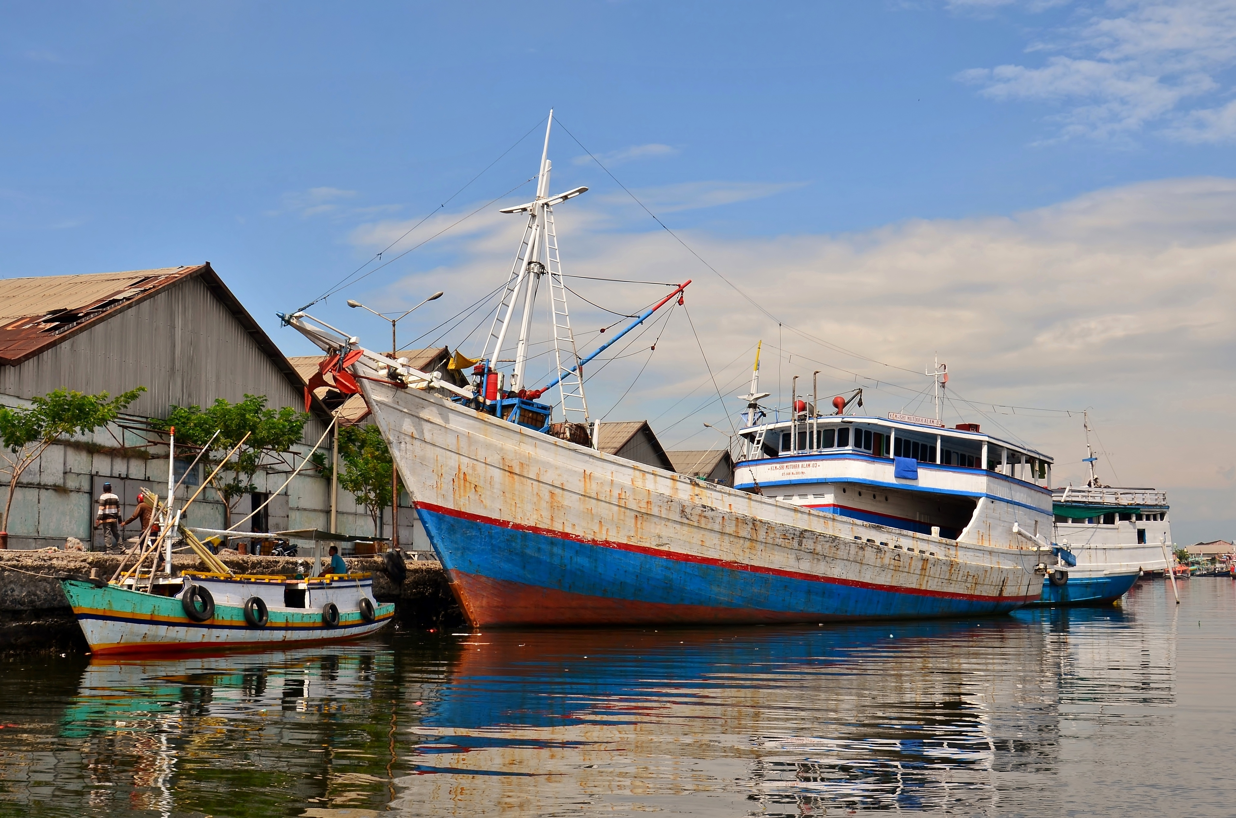 View of fishing boats inside the Port of Probolinggo, in East Java, Indonesia. The port is also known locally as Pelabuhan Tanjung Tembaga or "Port of Tanjung Tembaga".